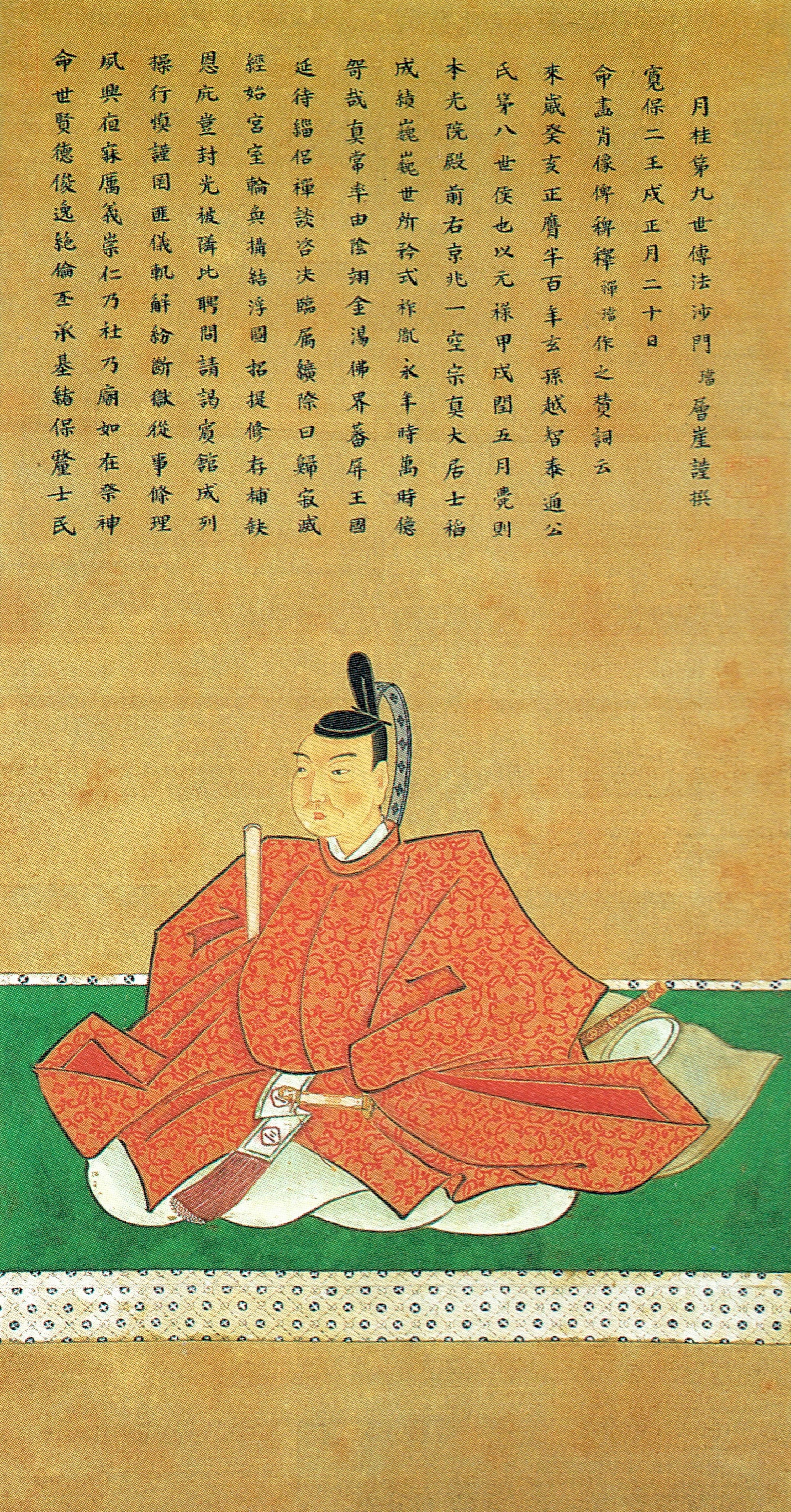 Portrait of Inaba Yoshimichi, owned by Gekkei-ji Temple in Usuki, Oita, Japan